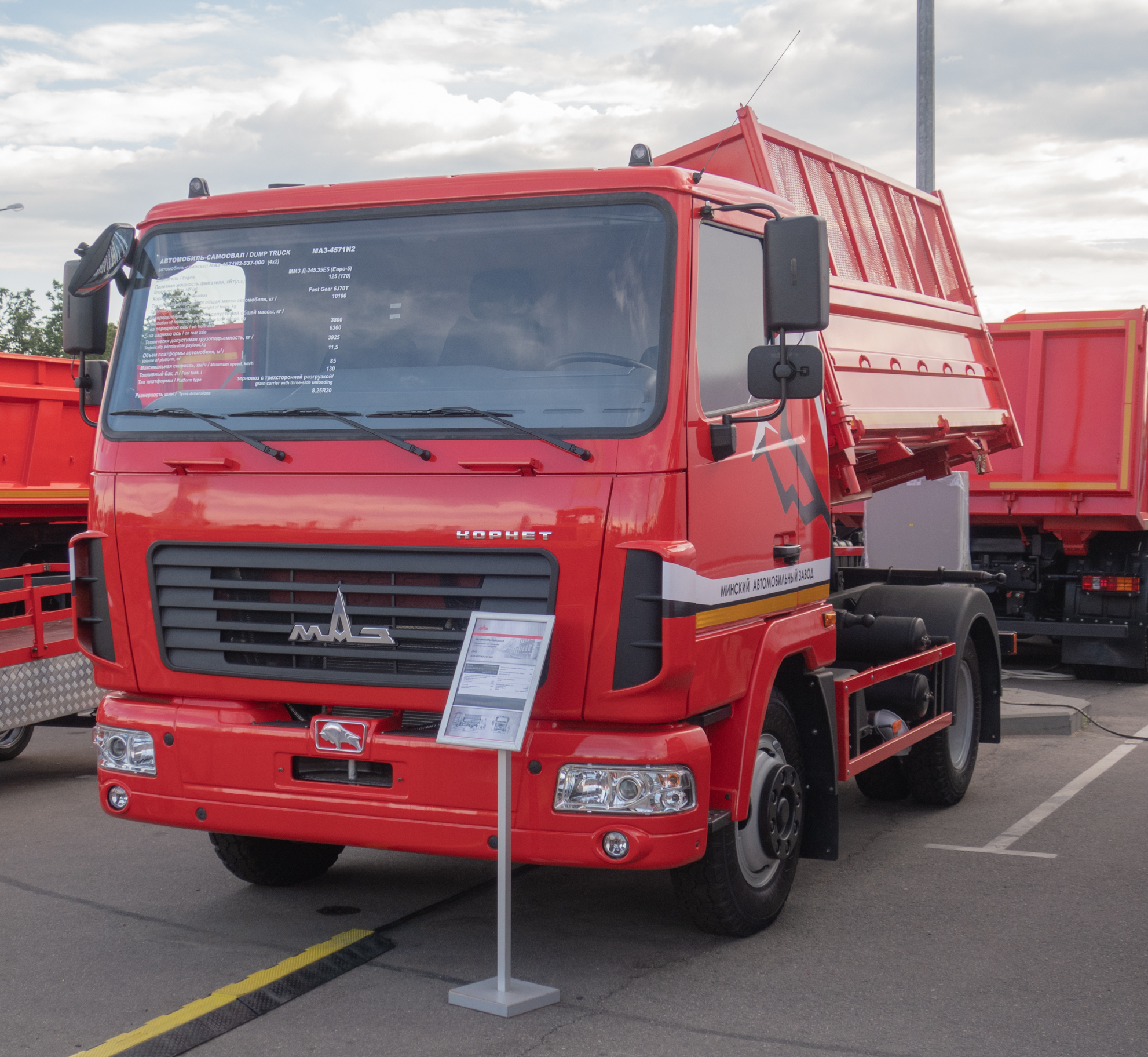 Dump truck (grain carrier) MAZ-4571N2-537-000. Photo taken at Belagro-2019 exhibition (Minsk district, Belarus)